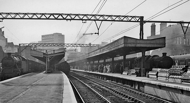 Fenchurch Street Station. View westward, to the buffer-stops; ex-Great Eastern terminus, used mainly and latterly by Tilbury Line (former London Tilbury & Southend Railway) trains. This is in the evening rush-hour, with three steam trains (locomotives were two Stanier 3-cylinder Class 4 2-6-4Ts and a BR Standard 2-6-4T) waiting to leave. Electrification of the Tilbury Lines was not for another year - the catenary seen was left over from the electrification of the rarely used ex-GE line from Stratford in 1949.